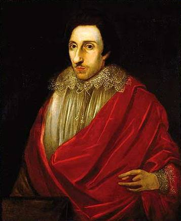 George Percy, colonial governor of Virginia